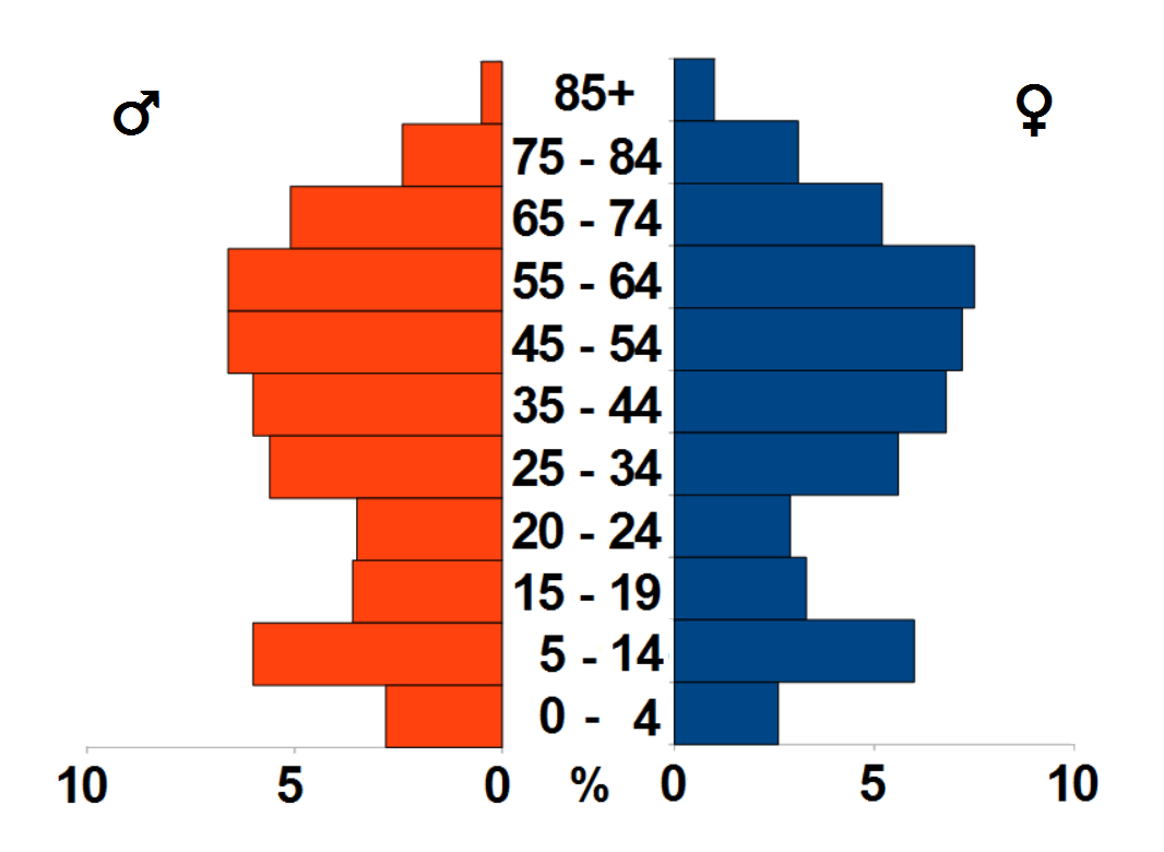 Age pyramid for Terrigal, New South Wales (Census 2011)